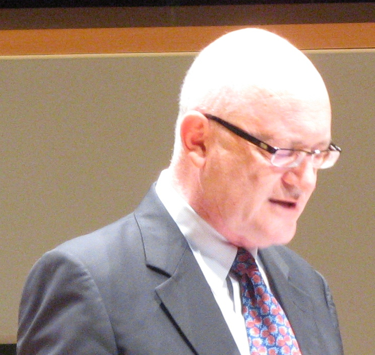 Vice-Chancellor of Warwick University, Prof. Nigel Thrift, giving a talk to parents of the new student intake on 2 October 2011, in a Warwick Arts Centre lecture theatre.